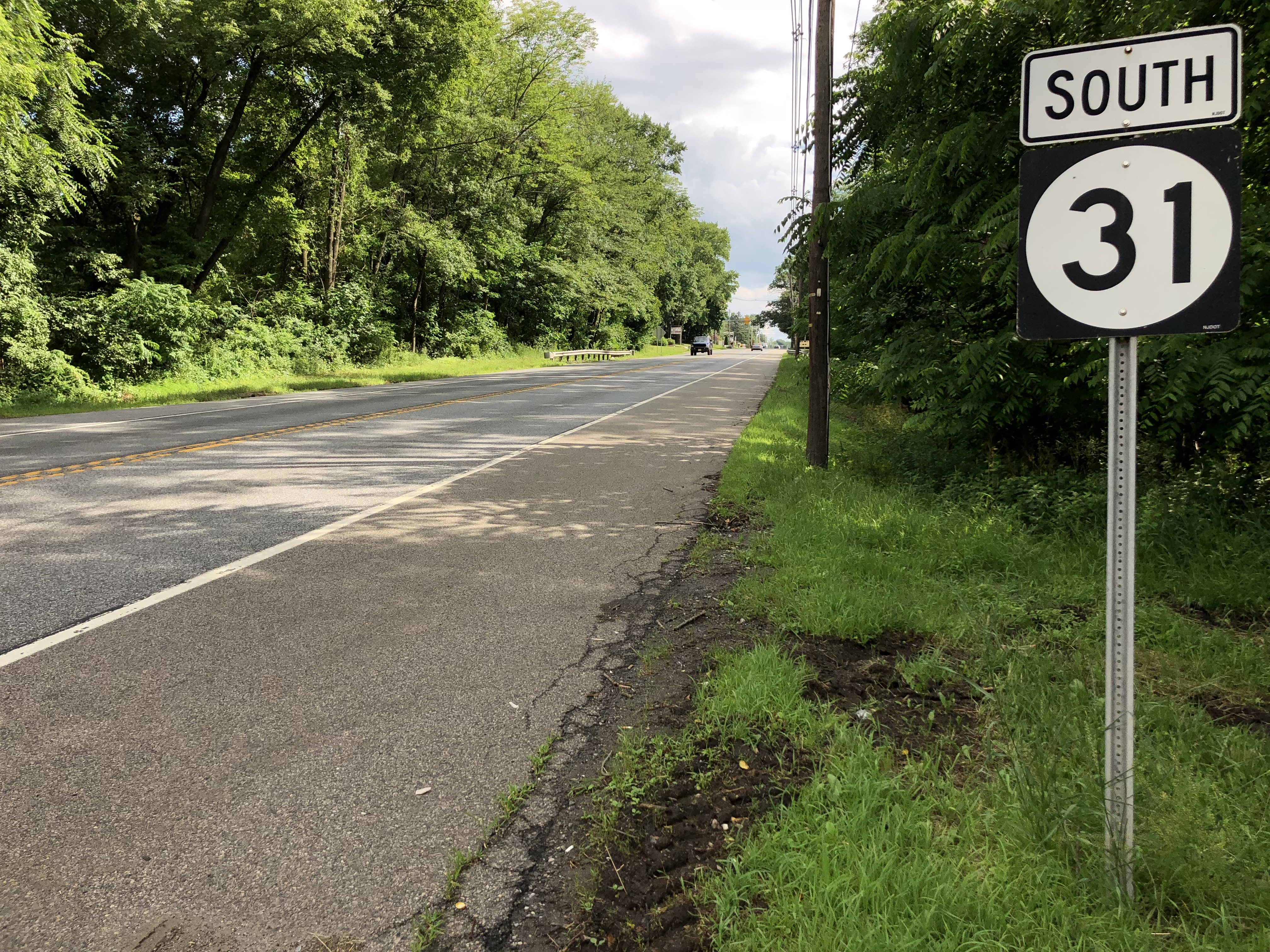 View south along New Jersey State Route 31 just south of Warren County Route 628 (Jackson Valley Road) in Washington Township, Warren County, New Jersey